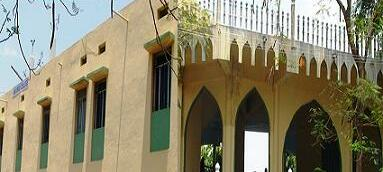 Anjuman college bijapur